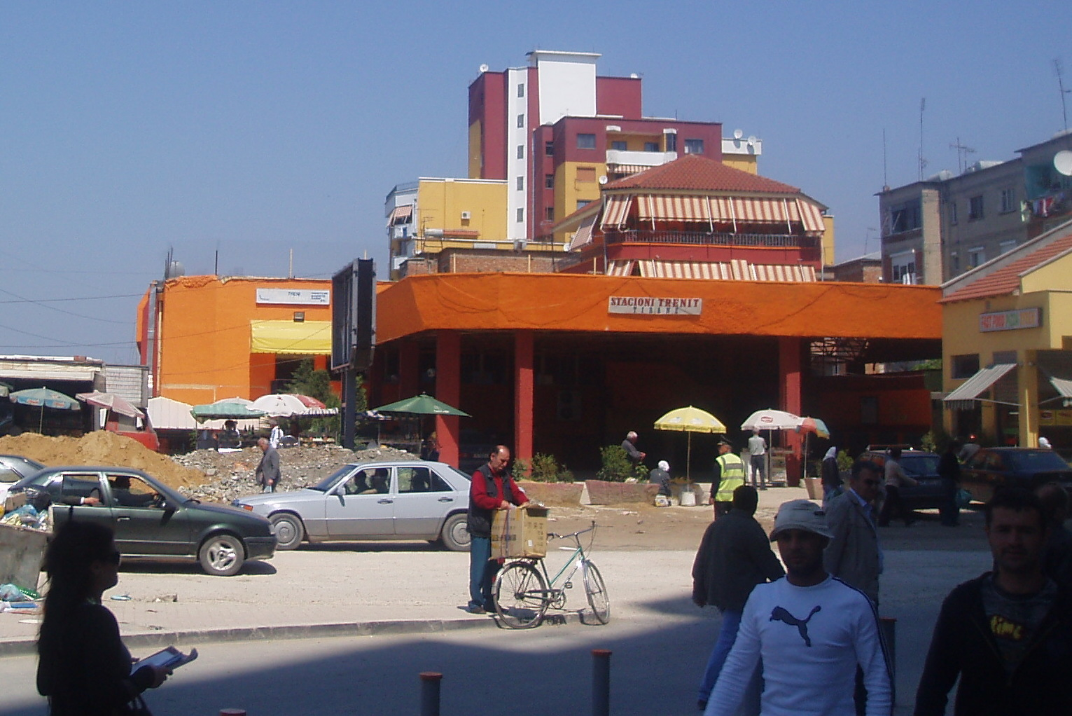 Train station of Tirana, Albania